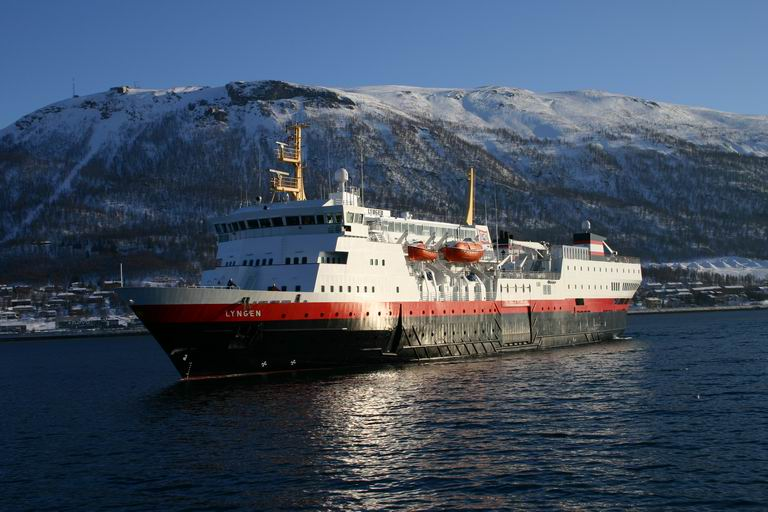 MS Lyngen arriving in Tromsø (March 2006)